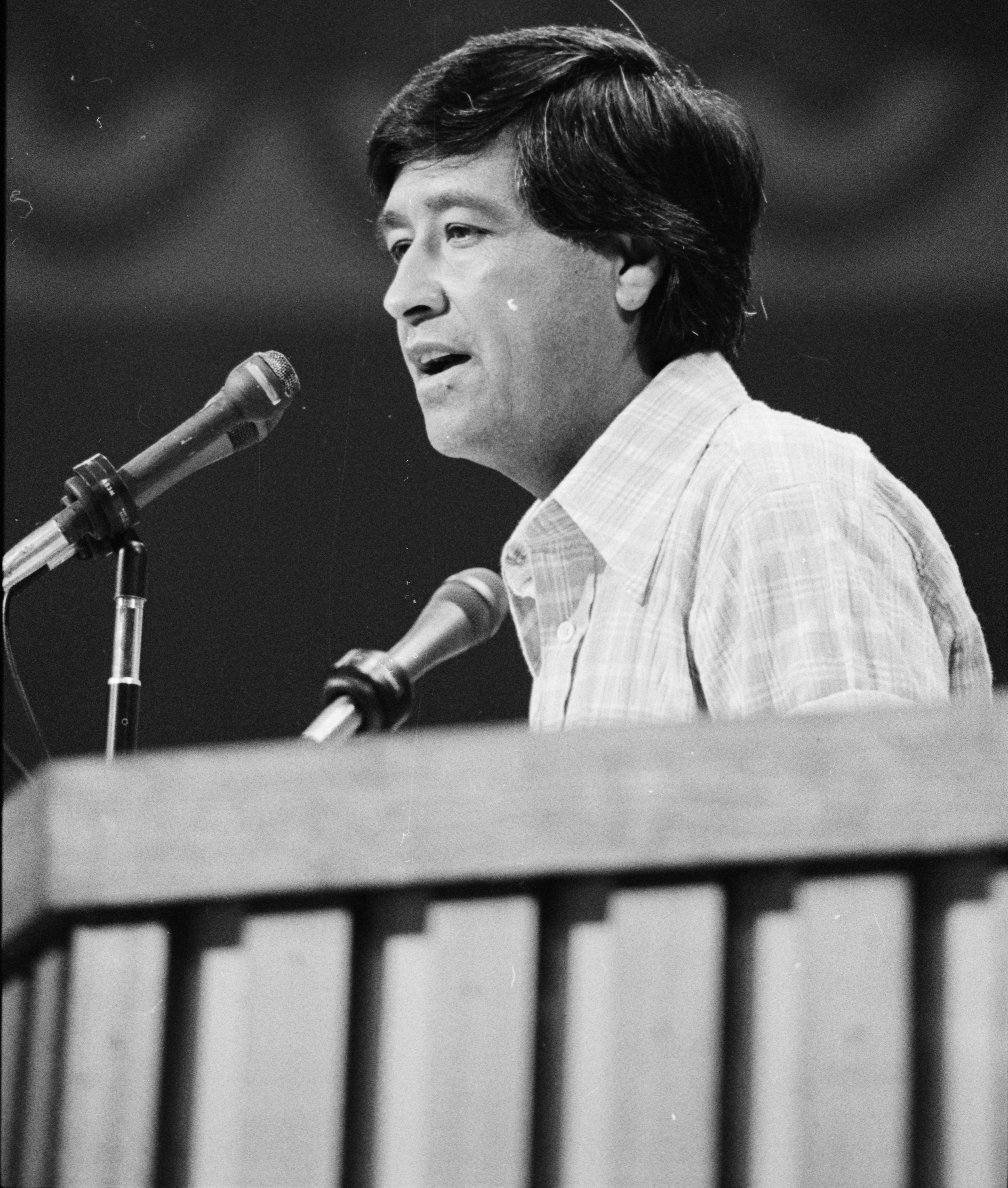 Democratic Convention in New York City, July 14, 1976. Cesar Chavez at podium, nominating Gov. Brown.